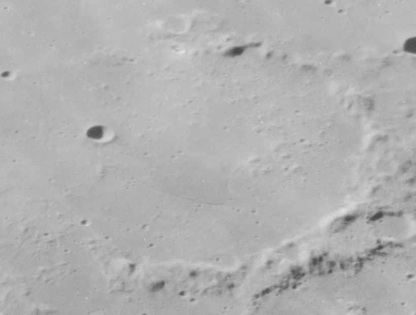 Oblique view of Gärtner crater, facing northwest, on the moon.